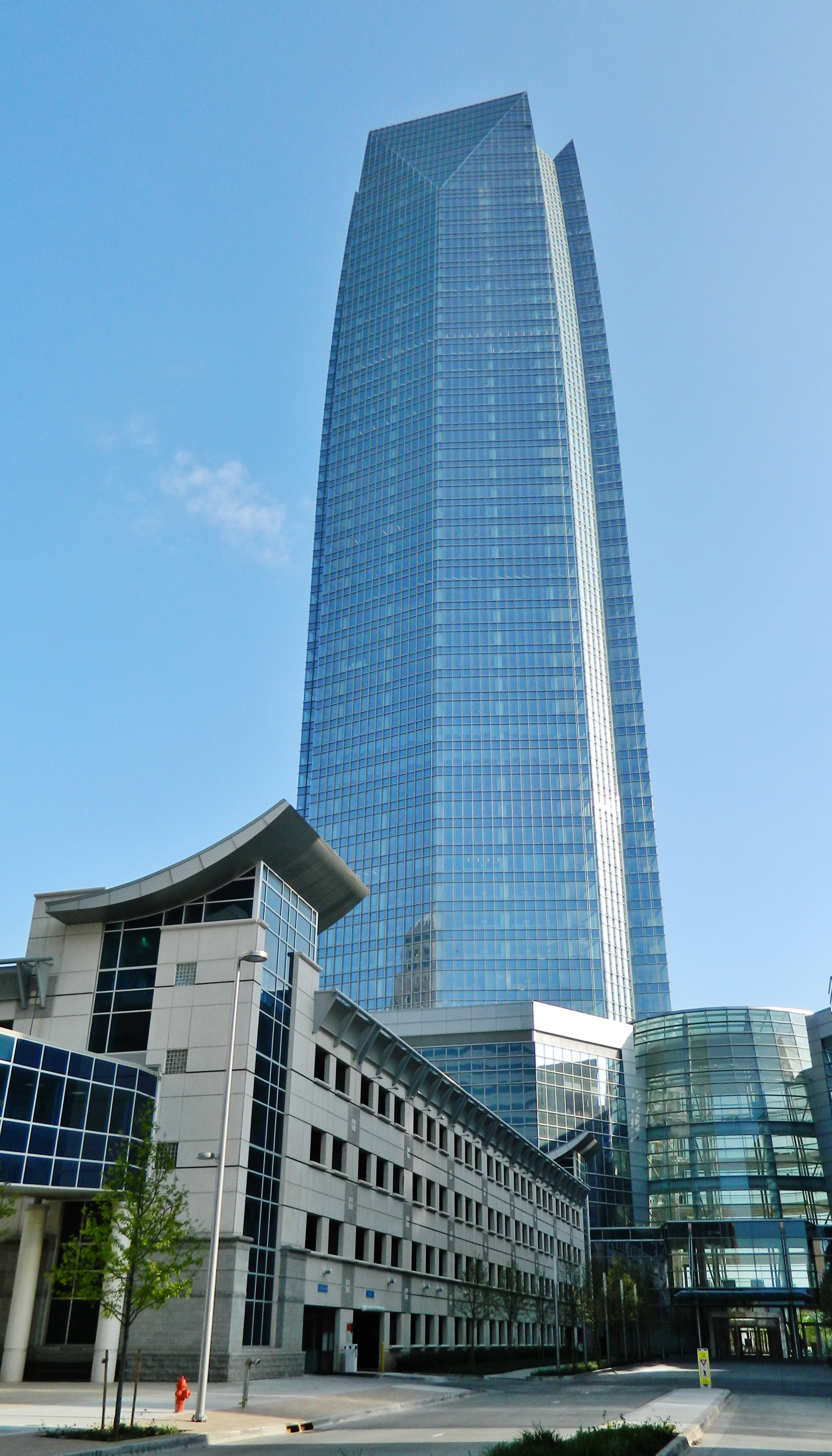 Looking south towards Devon Energy Center in downtown Oklahoma City.